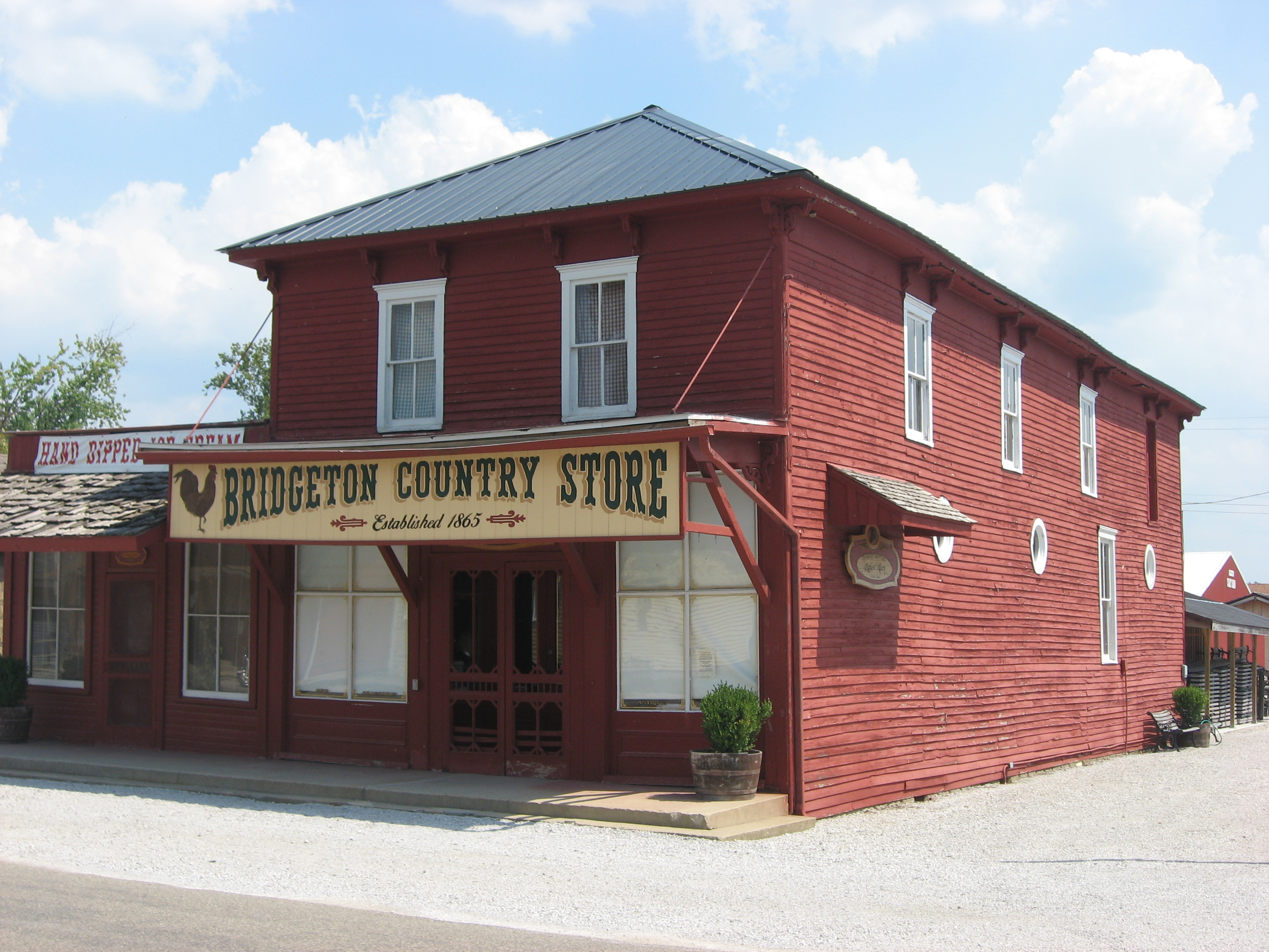 Front and southern side of the Bridgeton Country Store, located on Main Street in central Bridgeton, Indiana, United States. Built in 1869, it is part of the Bridgeton Historic District, a historic district that is listed on the National Register of Historic Places.